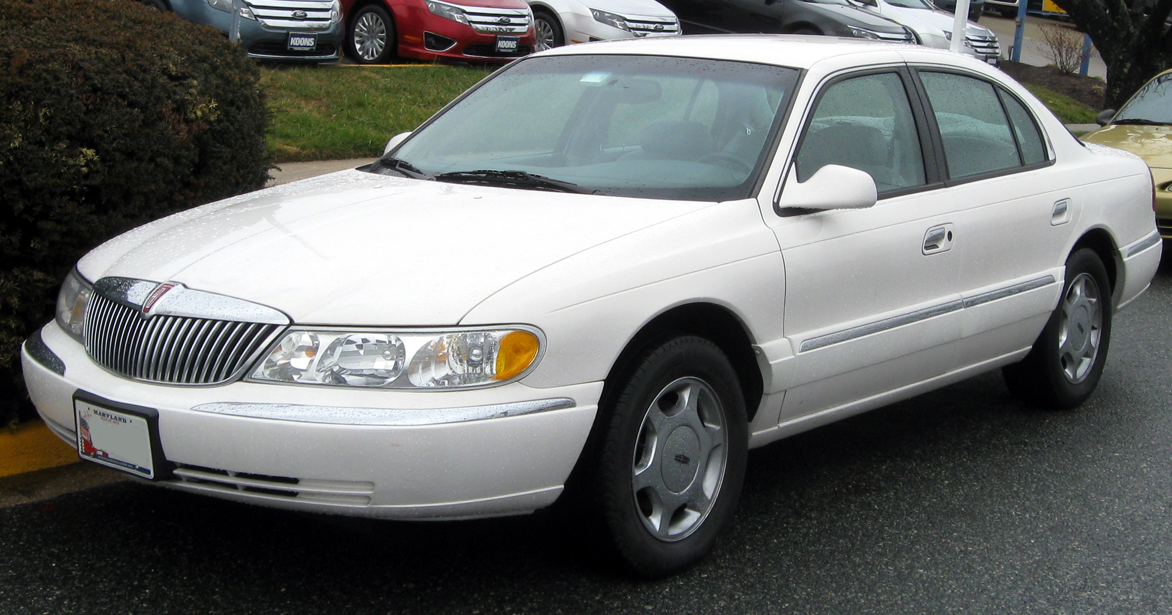 1998-2002 Lincoln Continental photographed in Silver Spring, Maryland, USA.